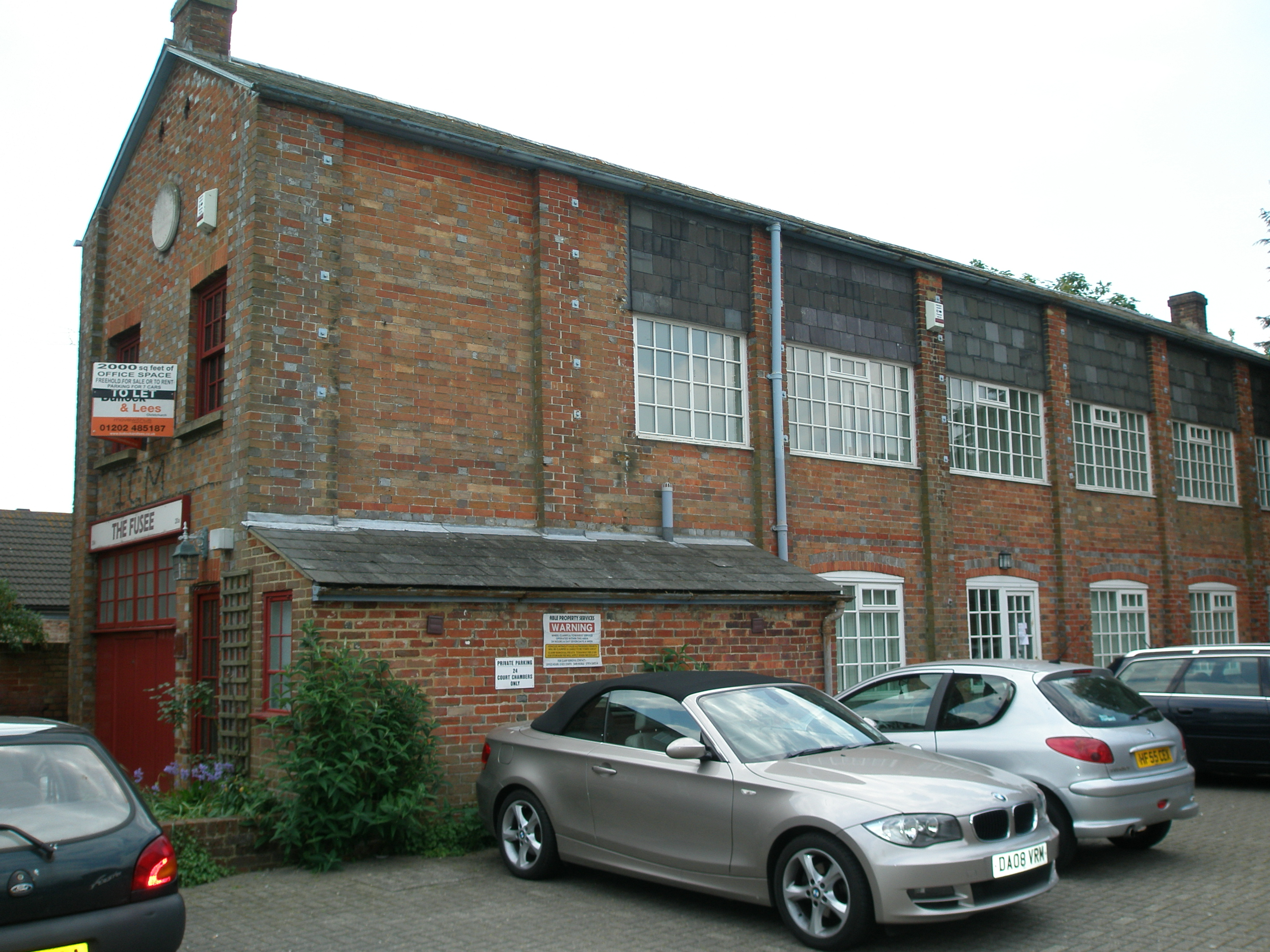 William Hart's fusee factory in Christchurch, Dorset.